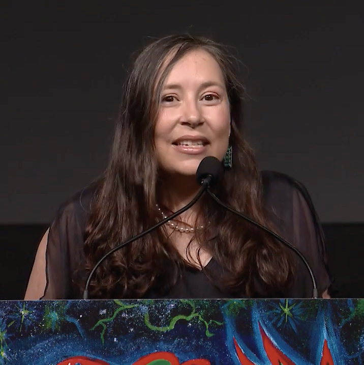 Dr. Adriana Briscoe delivers her acceptance speech at 2018 SACNAS - The National Diversity in STEM Conference, where she was recognized as the 2018 Distinguished Scientist.